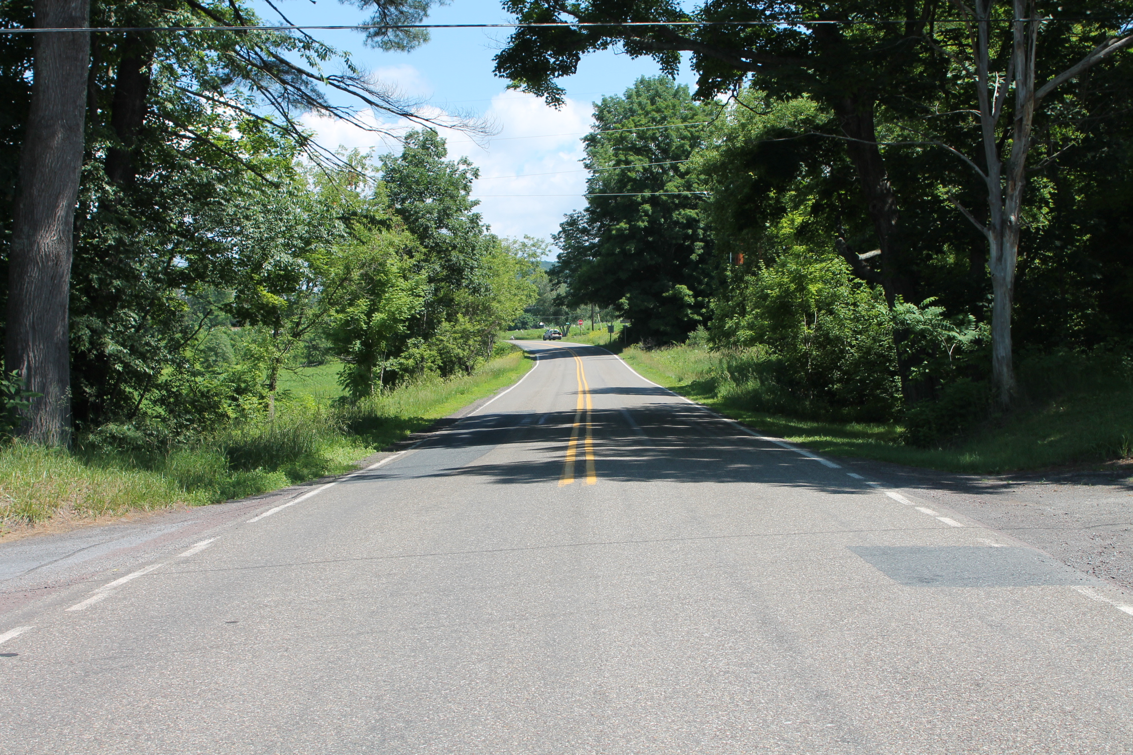 Rohrsburg Road looking north at the edge of Rohrsburg